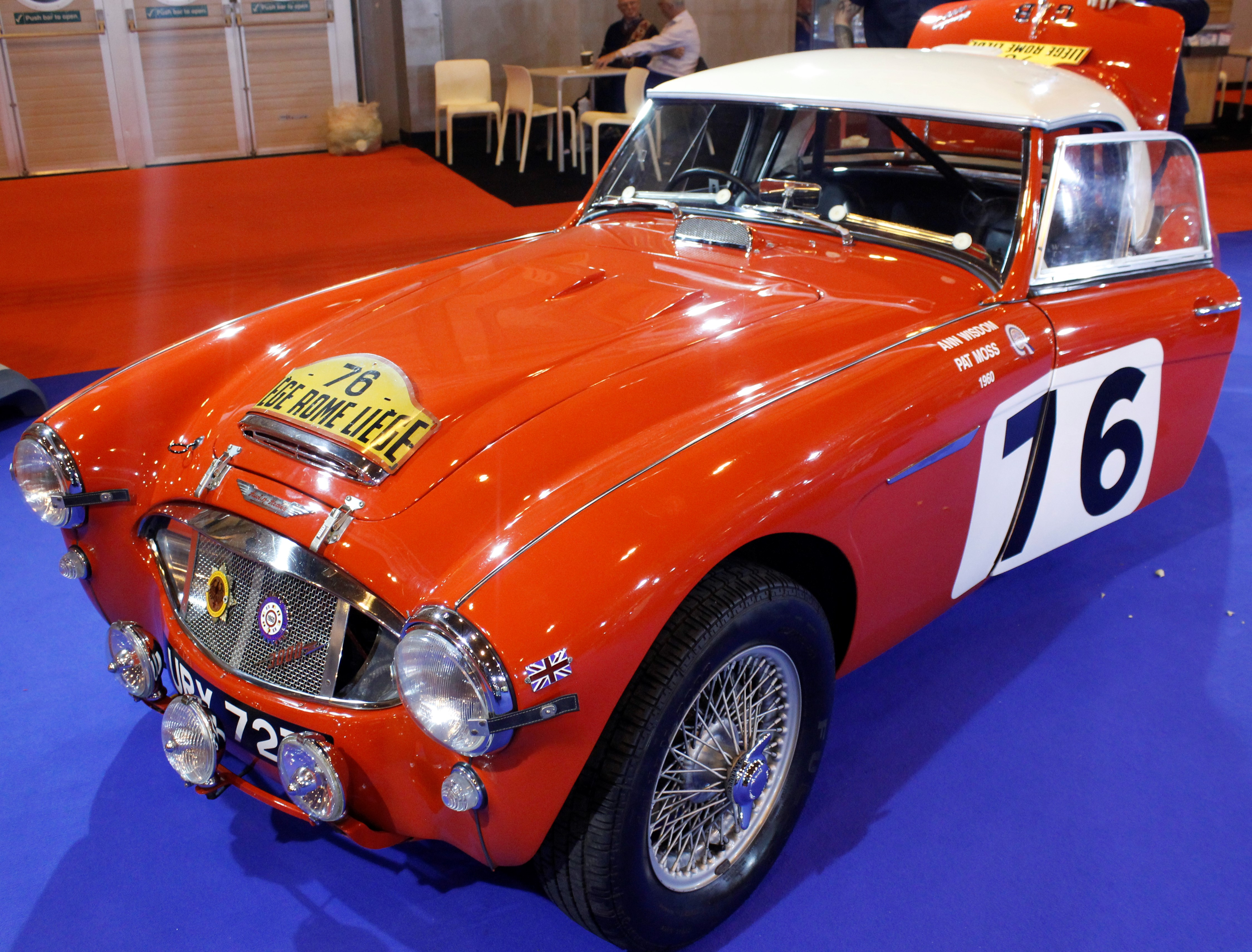 NEC Classic car show 2015